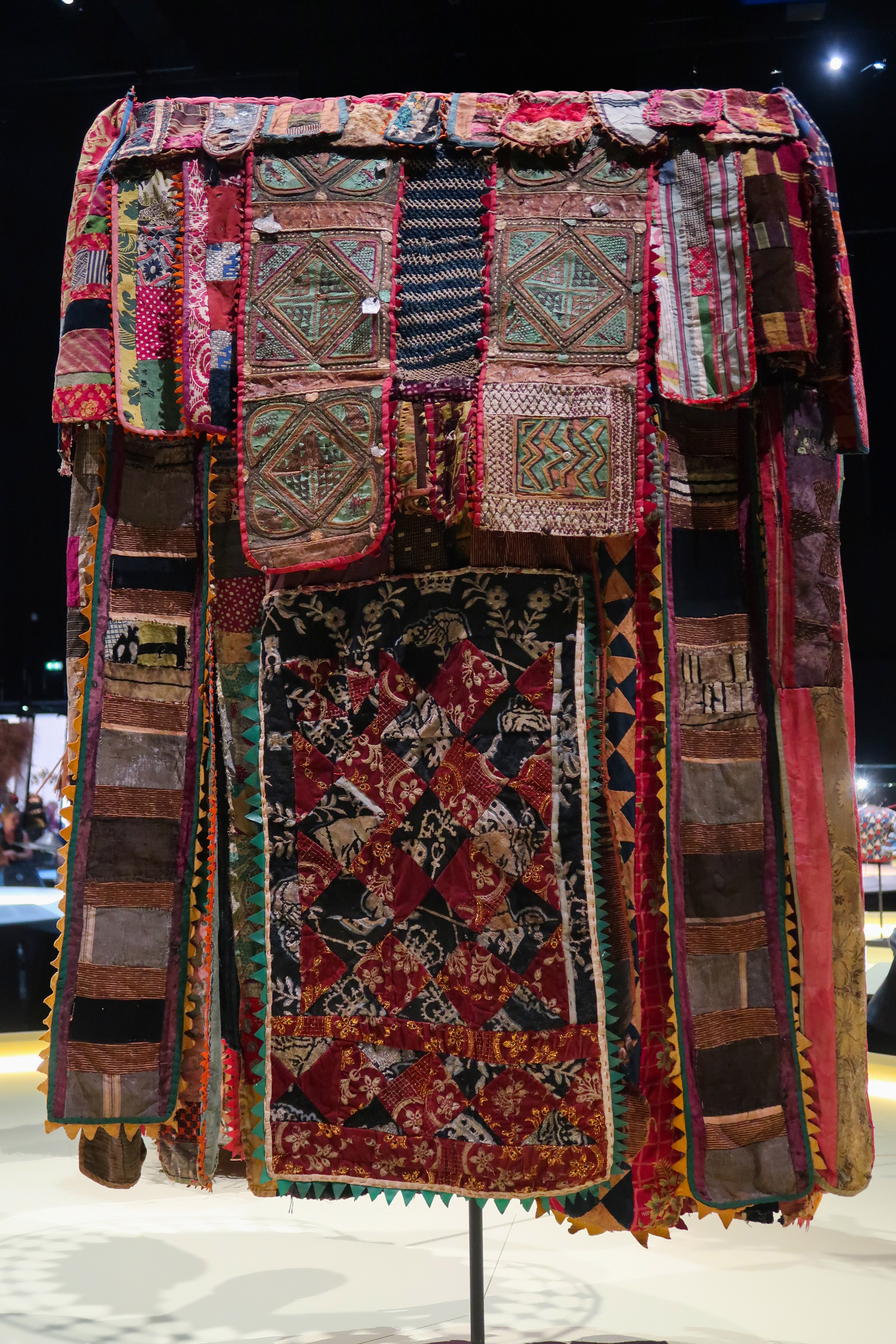 Mask-costume, egungun . 20th century. Africa, Nigeria, Oyo State. Yoruba population. Textile, wood, metal, plastic. Donation Antoine de Galbert. Museum of Confluences, Lyon. The mask egungun conceals any human form. It represents the spirit of an ancestor who manifests himself to the living. It may appear a few days after the death of a family member or during ceremonies honoring the memory of the deceased. The mask dances while turning on itself, twirling its strips of cloth, to the sound of drums. The wind it raises is seen as beneficial. On the other hand, his direct contact can be fatal. : Notice of the museum.